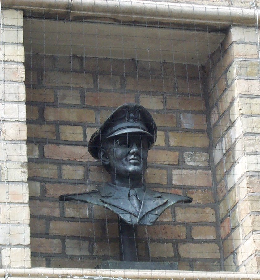 Bronze bust of Glenn Miller in an alcove on the front of the Corn Exchange in Bedford, England, where he once performed. There is a plaque beneath.